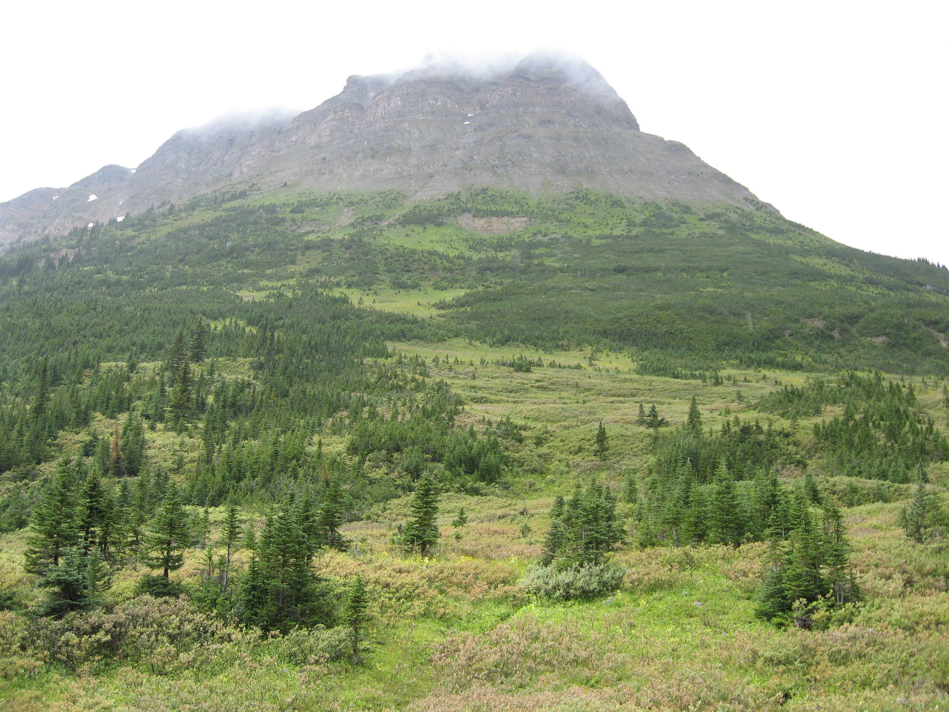 Tete Roche, the east end of Yellowhead Mountain, in Mount Robson Provincial Park, British Columbia, Canada.